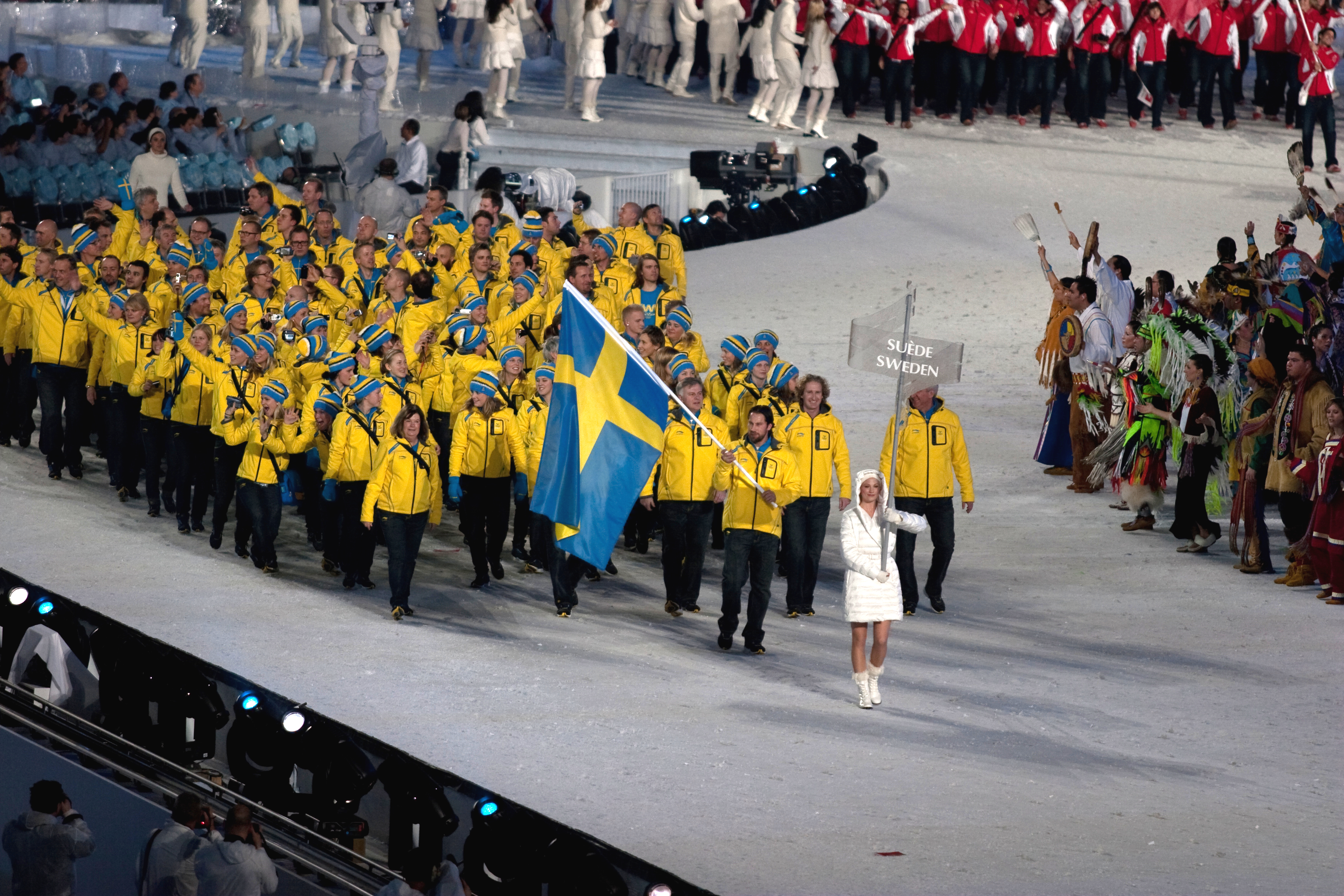 The athletes from Sweden entering the stadium at the opening ceremonies of the 2010 Winter Olympics